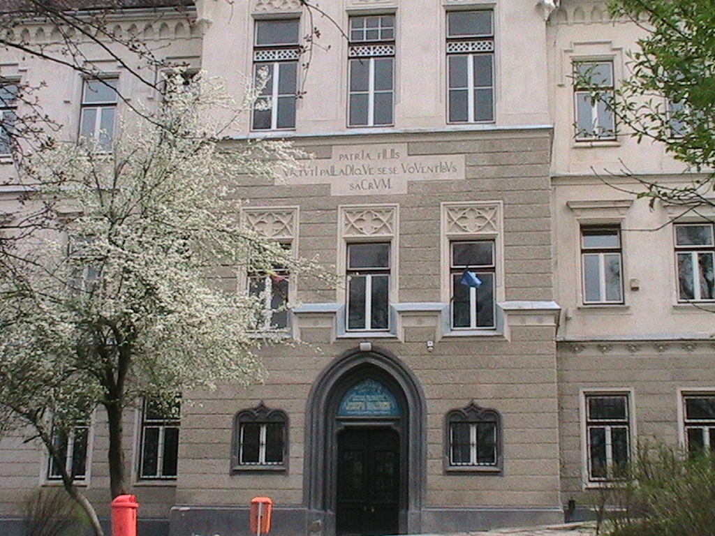 Joseph Haltrich High School (the School on the Hill) from Sighișoara, Romania